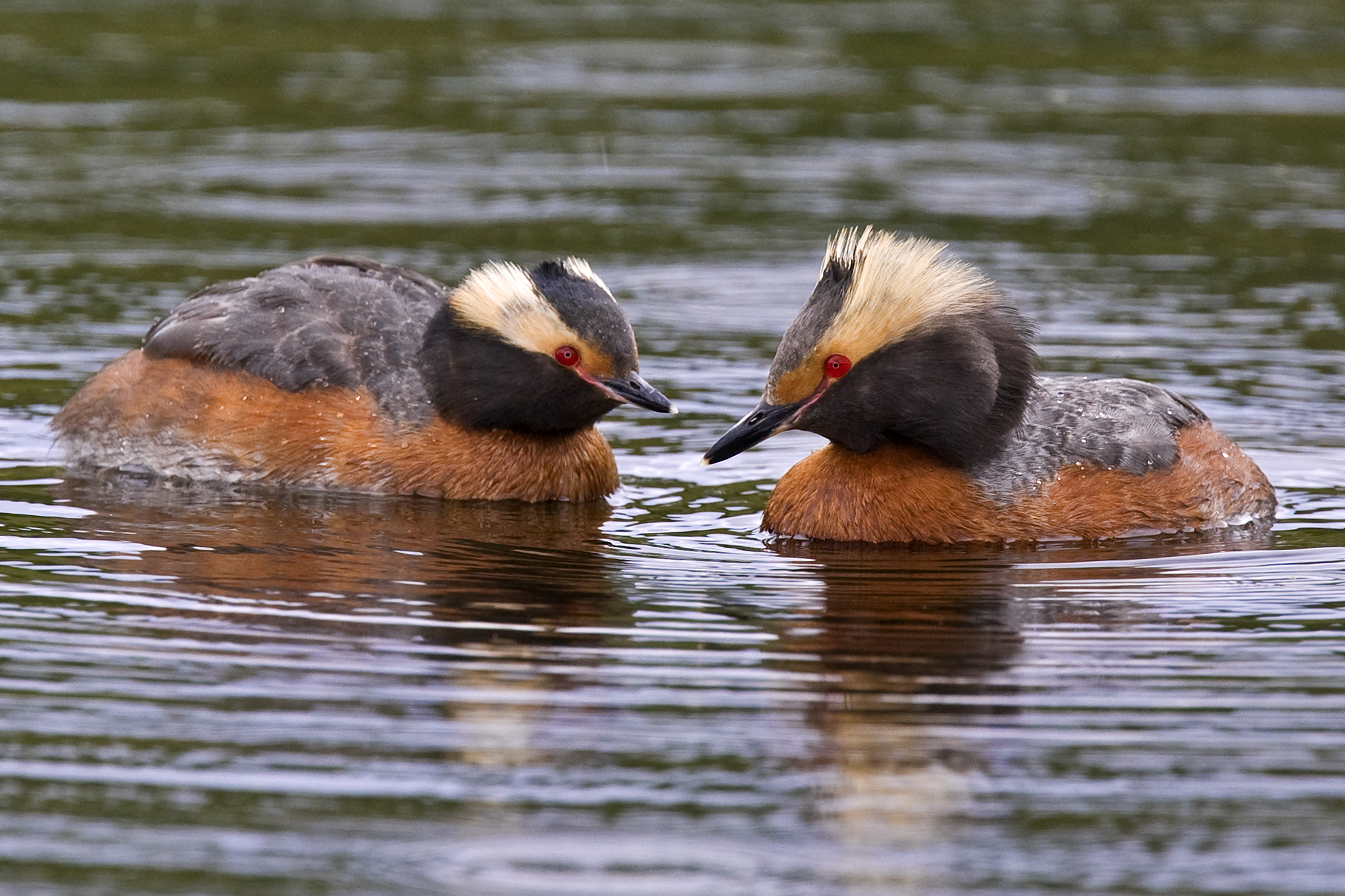 Horned Grebe pair, Denali National Park and Preserve, Alaska, USA